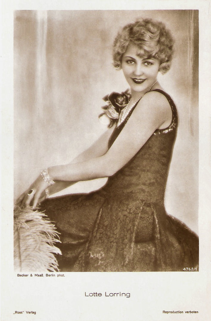 Postcard portrait of German actress Lotte Lorring (1893–1939) by Becker & Maass, Berlin.